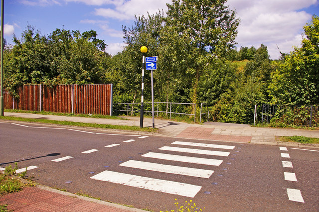 Zebra crossing over Atlas Road, Friern Park Trading Estate